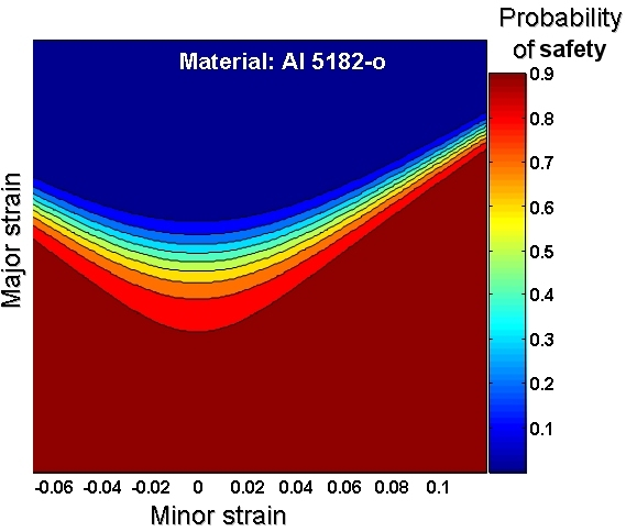 Forming limit map: probability of failure for an annealed aluminium alloy